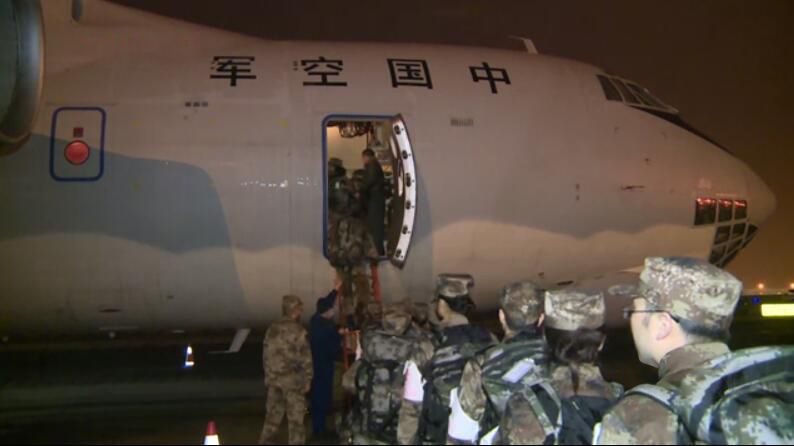 Third Military Medical University medical team boarding Il-76 aircraft